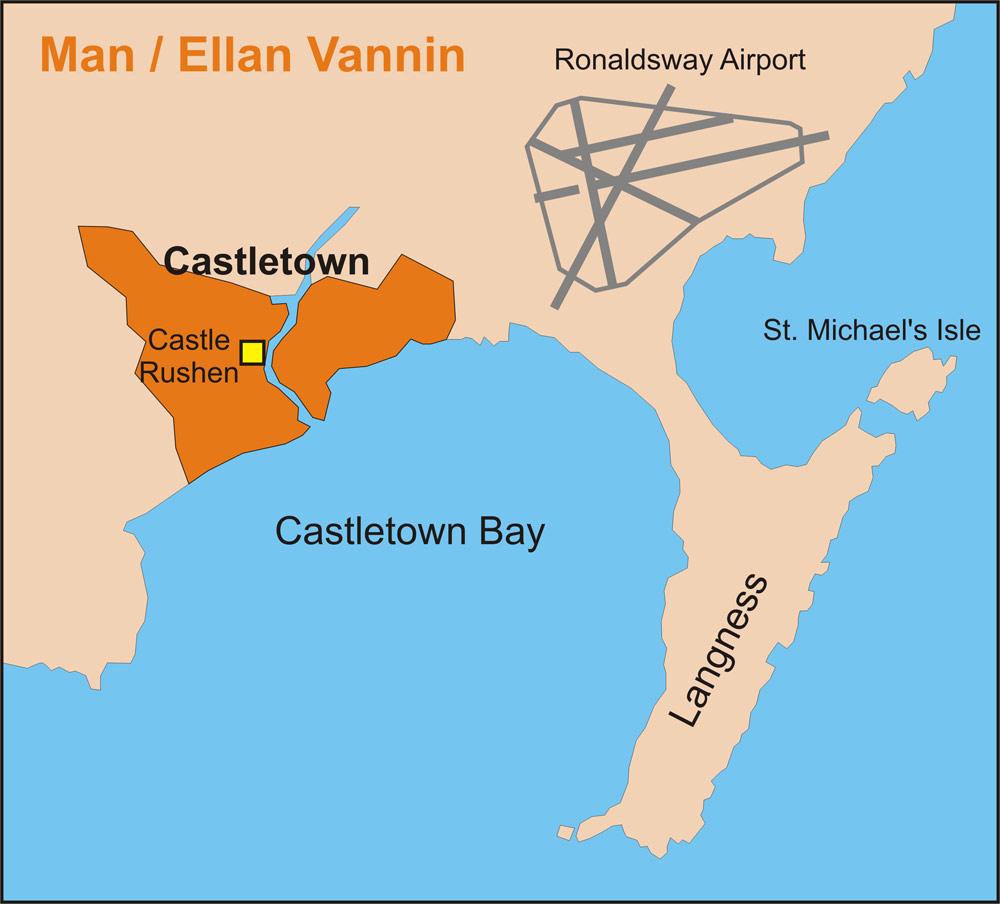 Map of Castletown, Isle of Man, including the bay, airport and Langness.